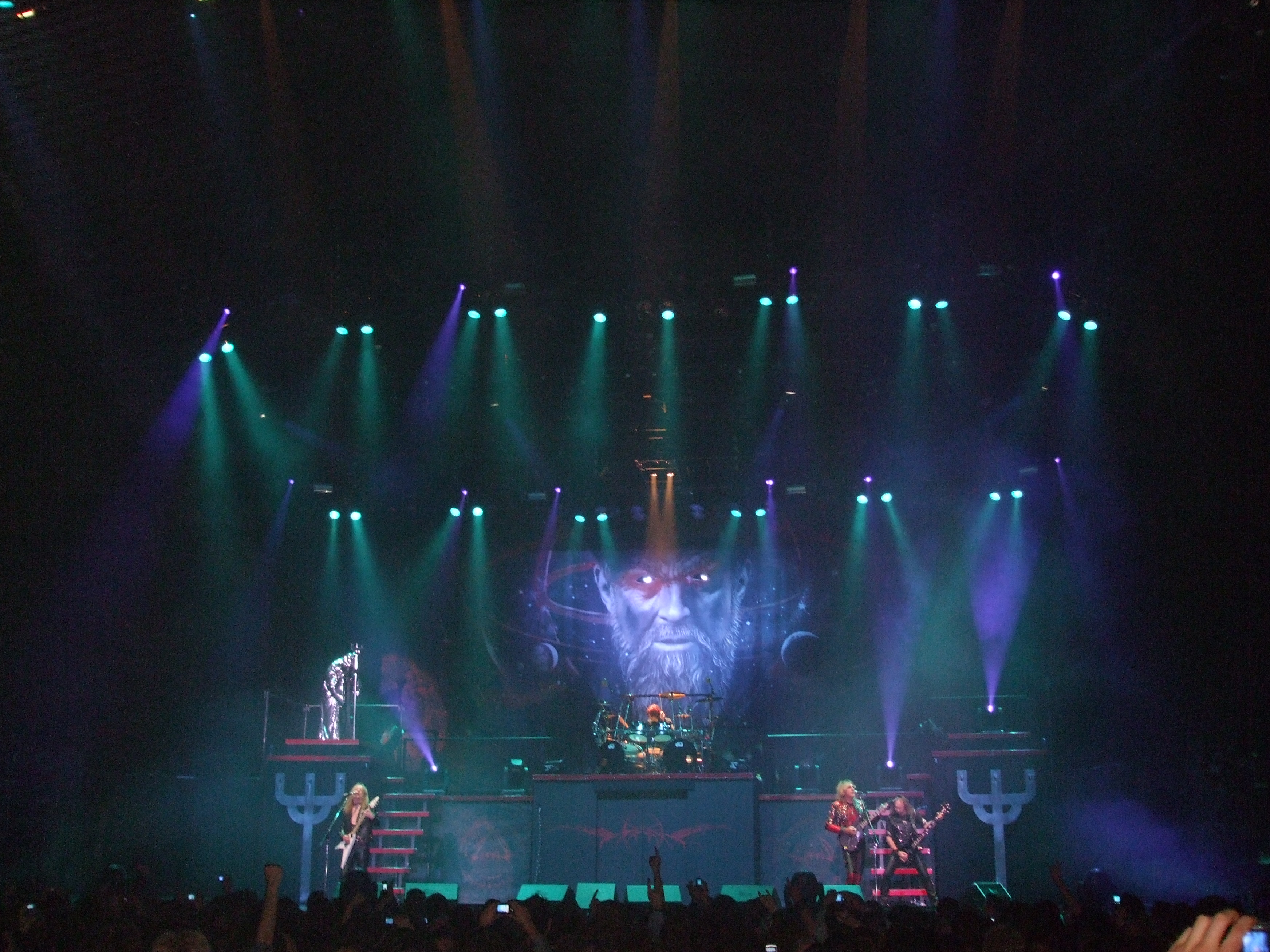 Judas Priest performing at the Sheffield Arena in February 2009